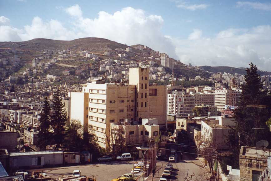 View of Nablus